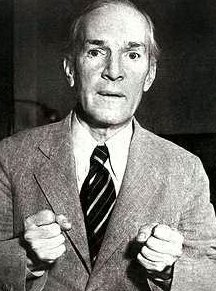 Upton Beall Sinclair Jr. as depicted on the cover of Times Magazine in 1934.